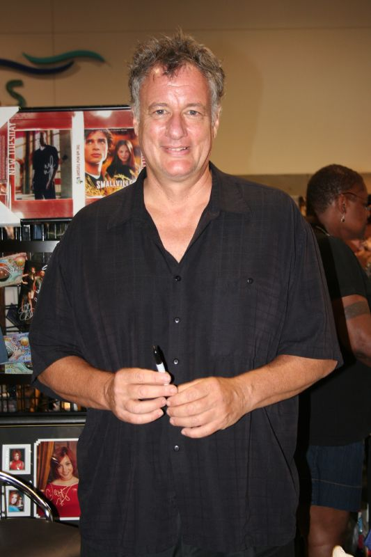 John de Lancie, American character actor. He is known for his recurring role as "Q" on the various Star Trek series, and as Frank Simmons in Stargate SG-1.